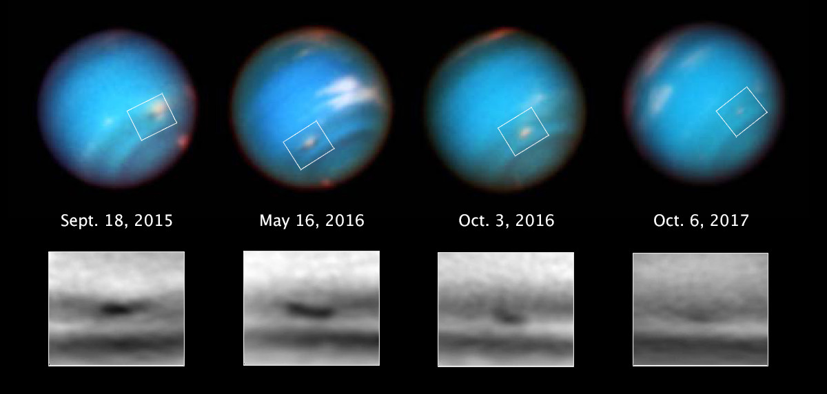 Neptune, the eighth and farthest planet from the Sun, was visited for the first and last time by NASA’s Voyager 2 mission in 1989. Since then, the NASA/ESA Hubble Space Telescope has been attempting to unearth the myriad mysteries surrounding this cool, majestic behemoth — including deciphering why it has the fastest wind speeds of any planet in the Solar System, and what lies at its centre. These new Hubble images reveal one of the standout features of Neptune’s strange atmosphere: a rare dark spot, or dark vortex — a whirling high-pressure atmospheric system usually accompanied by bright “companion clouds”. This particular dark spot is named SDS-2015 (Southern Dark Spot discovered in 2015), and is only the fifth observed so far on Neptune. Although it appears to be slightly smaller than previous dark spots, observations of SDS-2015 from 2015 to 2017 revealed that the spot was once big enough to almost swallow China before rapidly diminishing in size. Each of the five dark spots found on Neptune have been curiously diverse, but all have appeared and disappeared within just a few years — as opposed to similar vortices on Jupiter which evolve over decades. Bright clouds form alongside dark spots when the flow of ambient air is disturbed and diverted upwards over the spot, likely causing gases to freeze into methane ice crystals. Only Hubble is currently powerful enough to image Neptune’s dark spots, and produce striking images such as these; these views were taken over the course of two years using Hubble’s Wide Field Camera 3 (WFC3).